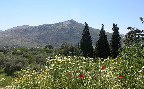 Marathon